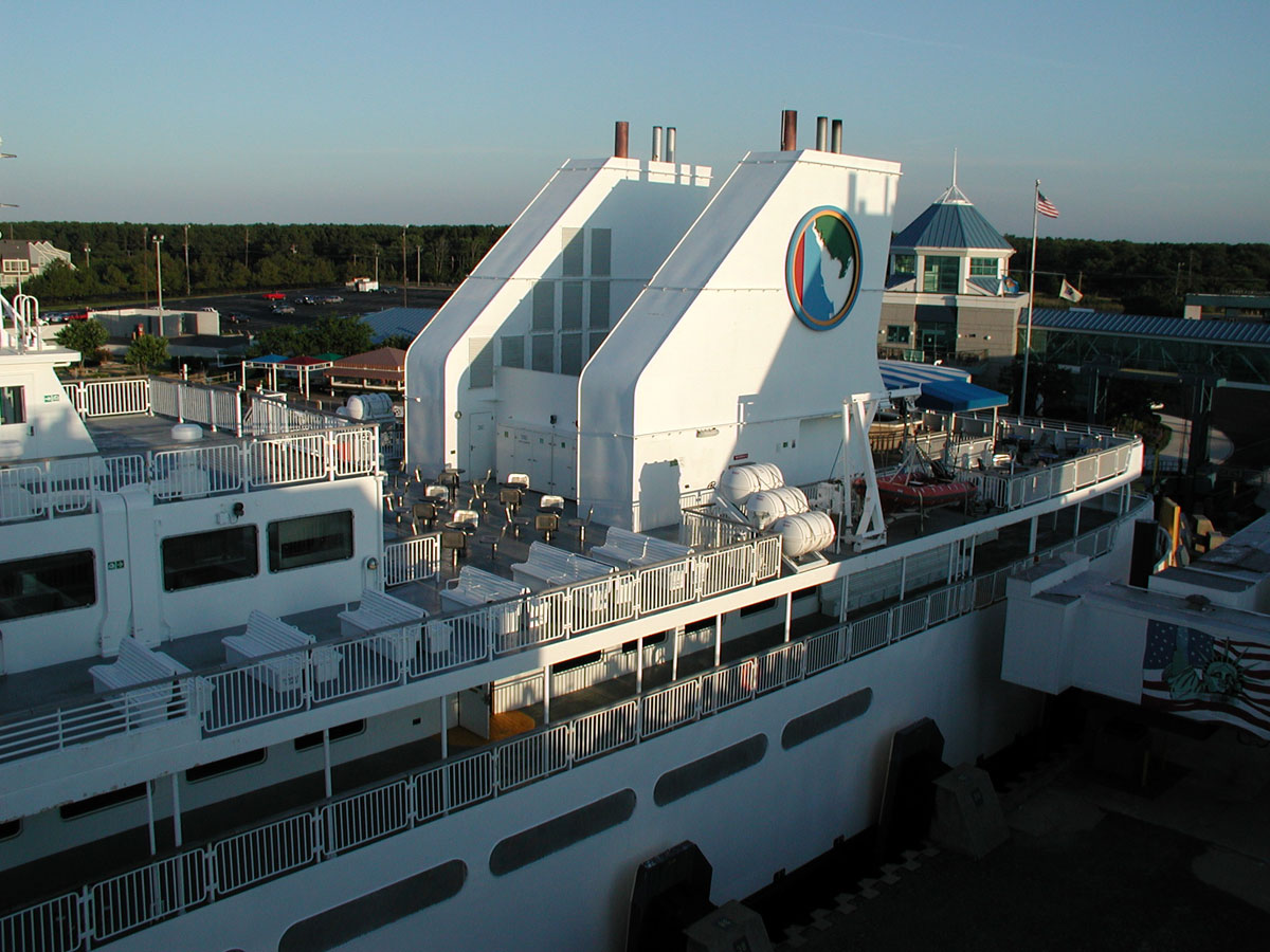 The "shark's fin" stacks of the M.V. Delaware, as seen on dock at the Lewes, Delaware, terminal of the Cape May-Lewes Ferry, on July 6, 2004. Photo by Adam Gilson.